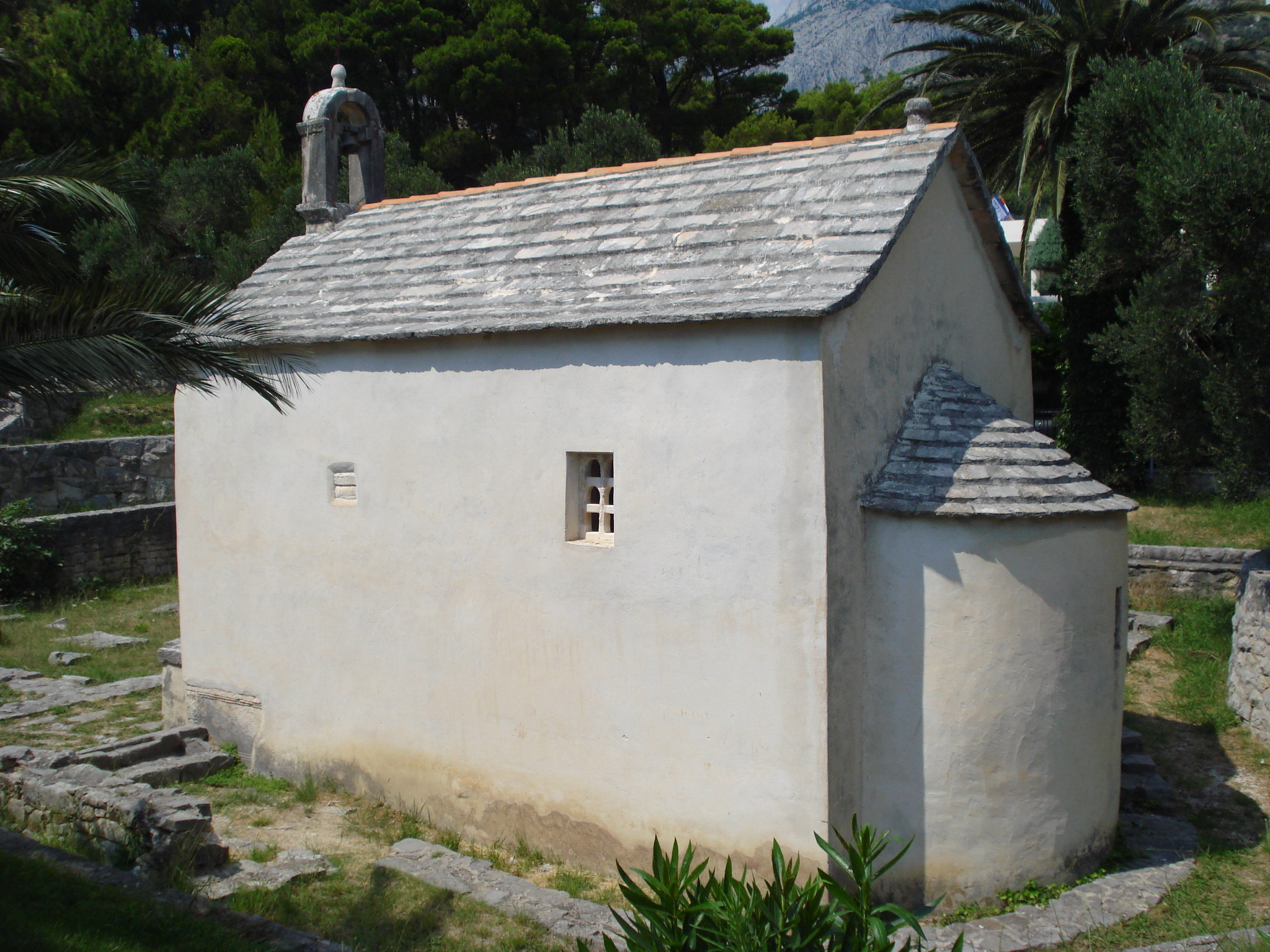 The Church of St. George (14th century), Tučepi, Croatia - rear viewHrvatski: Crkva sv. Jure (14. stoljeće), Tučepi, Hrvatska - stražnja strana